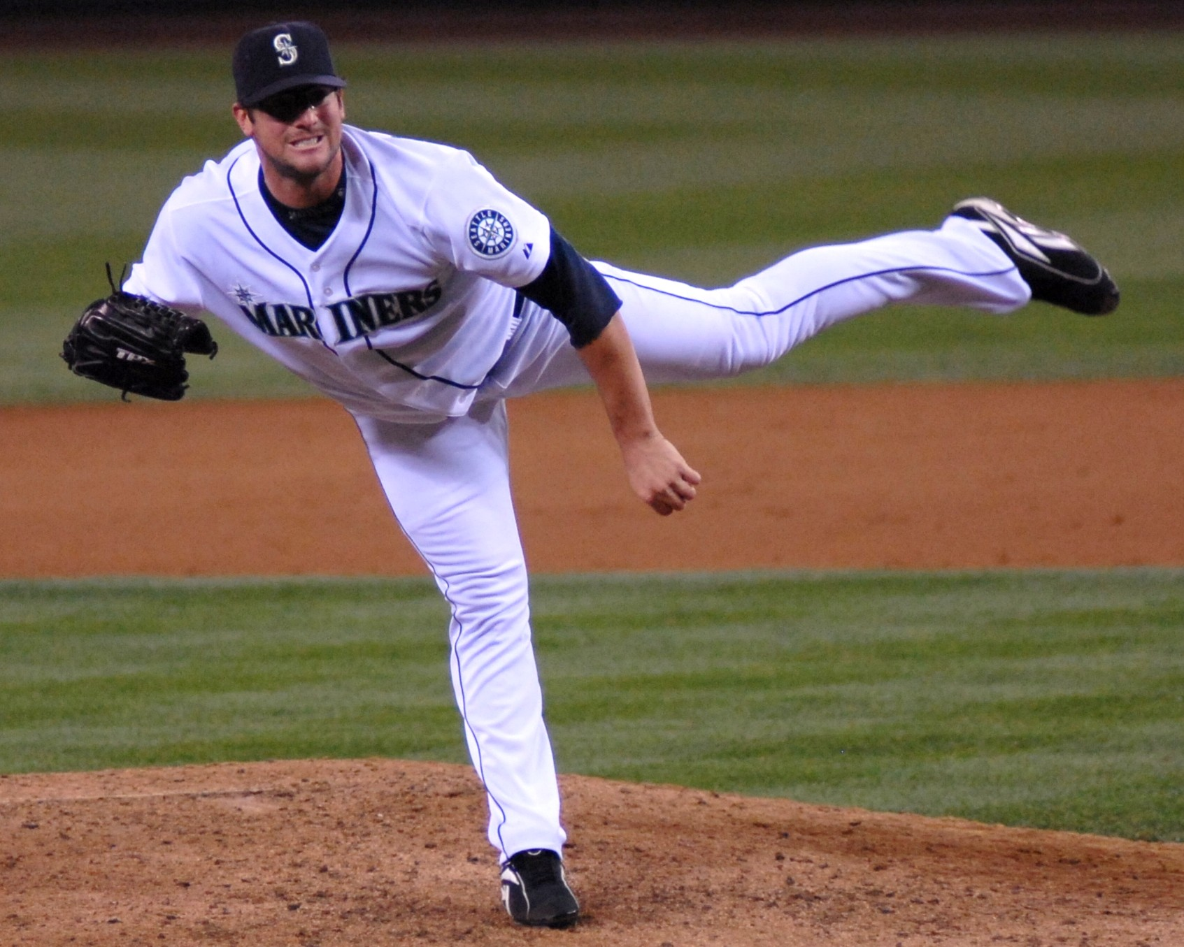 Ryan Rowland-Smith on the mound in 2008.